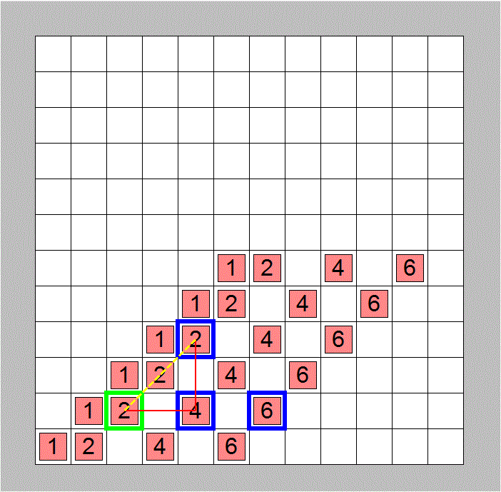 This is illustration of scheme of proof that "corners theorem" implies Roth theoreme about arithmetic progressions with length 3 in natural infinity sets with positive density